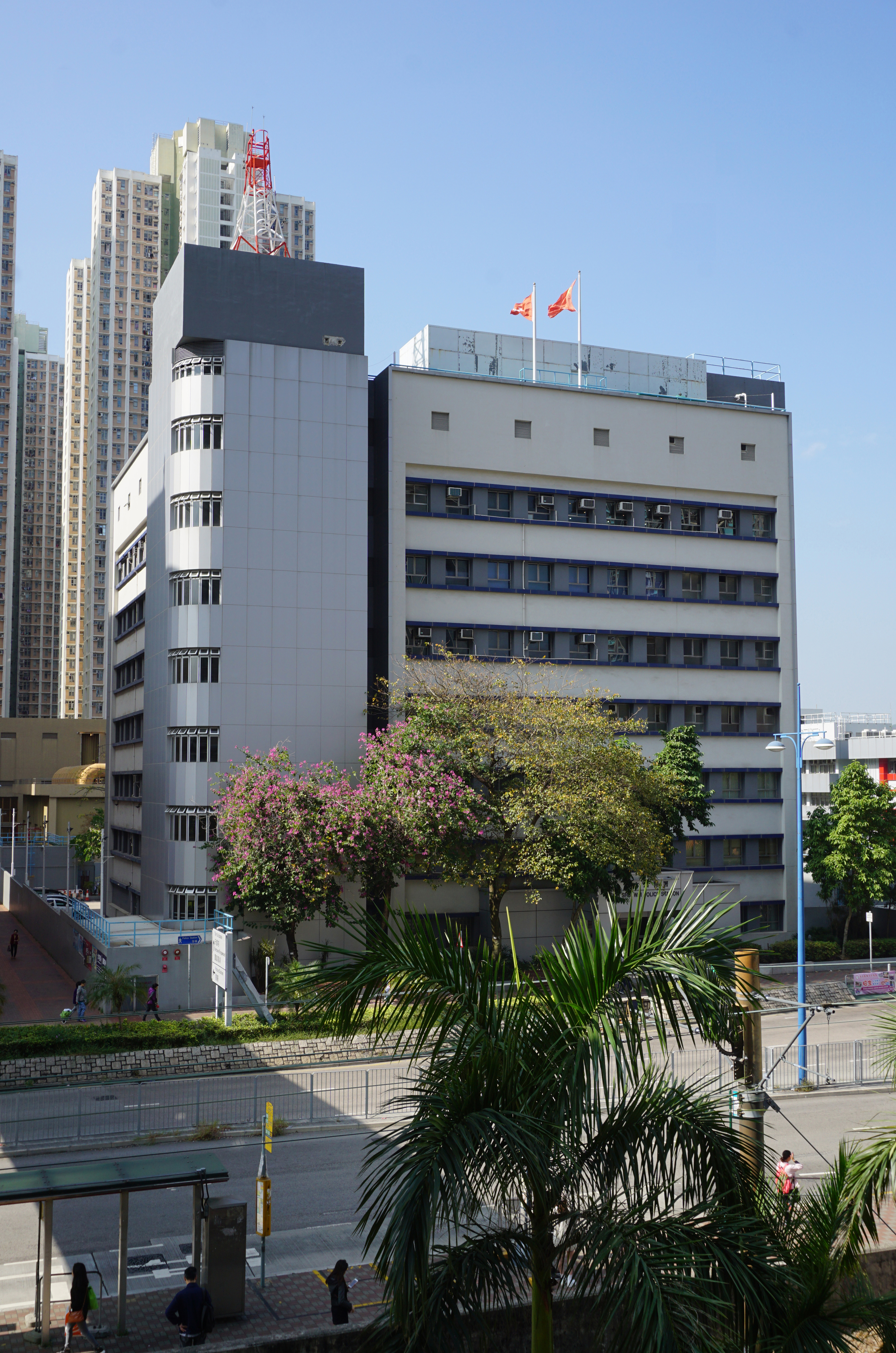 Police Station in Tin Shui Wai, Hong Kong.